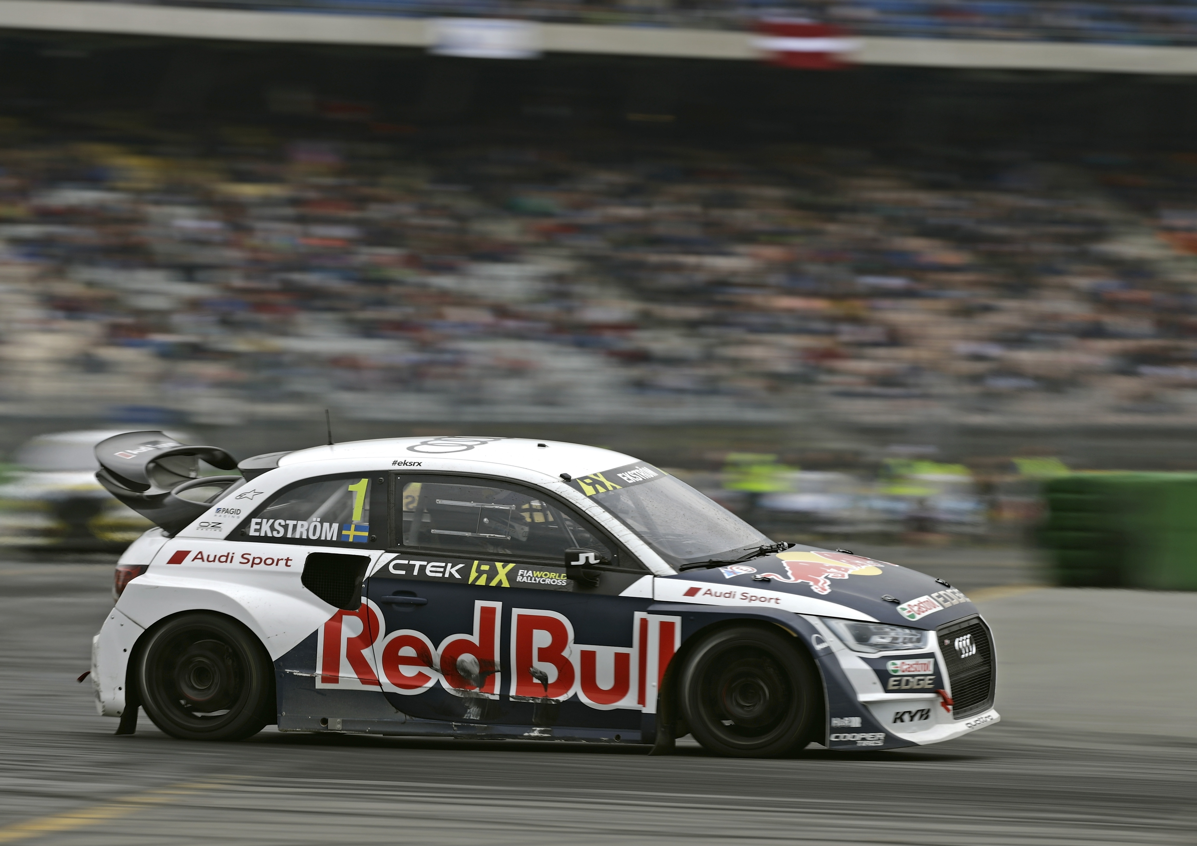 2017 FIA World Rallycross Championship // Round 03, Hockenheim // Credit: EKS/Bodo Kraeling